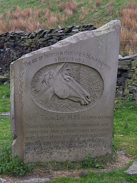 Lady Mary Towneley's monument This is a monument to the late Lady Mary Towneley who campaigned for the creation of a long-distance bridleway. This part of the Pennine Bridleway - known as the Mary Towneley Loop - was opened in May 2002, the first section of the National Trail. The Mary Towneley Loop is a challenging 47-mile circuit around the South Pennine moors and is a great favourite with equestrians and mountain bikers. The monument is located near a gate at the end of a steep grassy ascent from the farm at SD864288 and affords great views over the Cliviger area between Burnley and Todmorden.